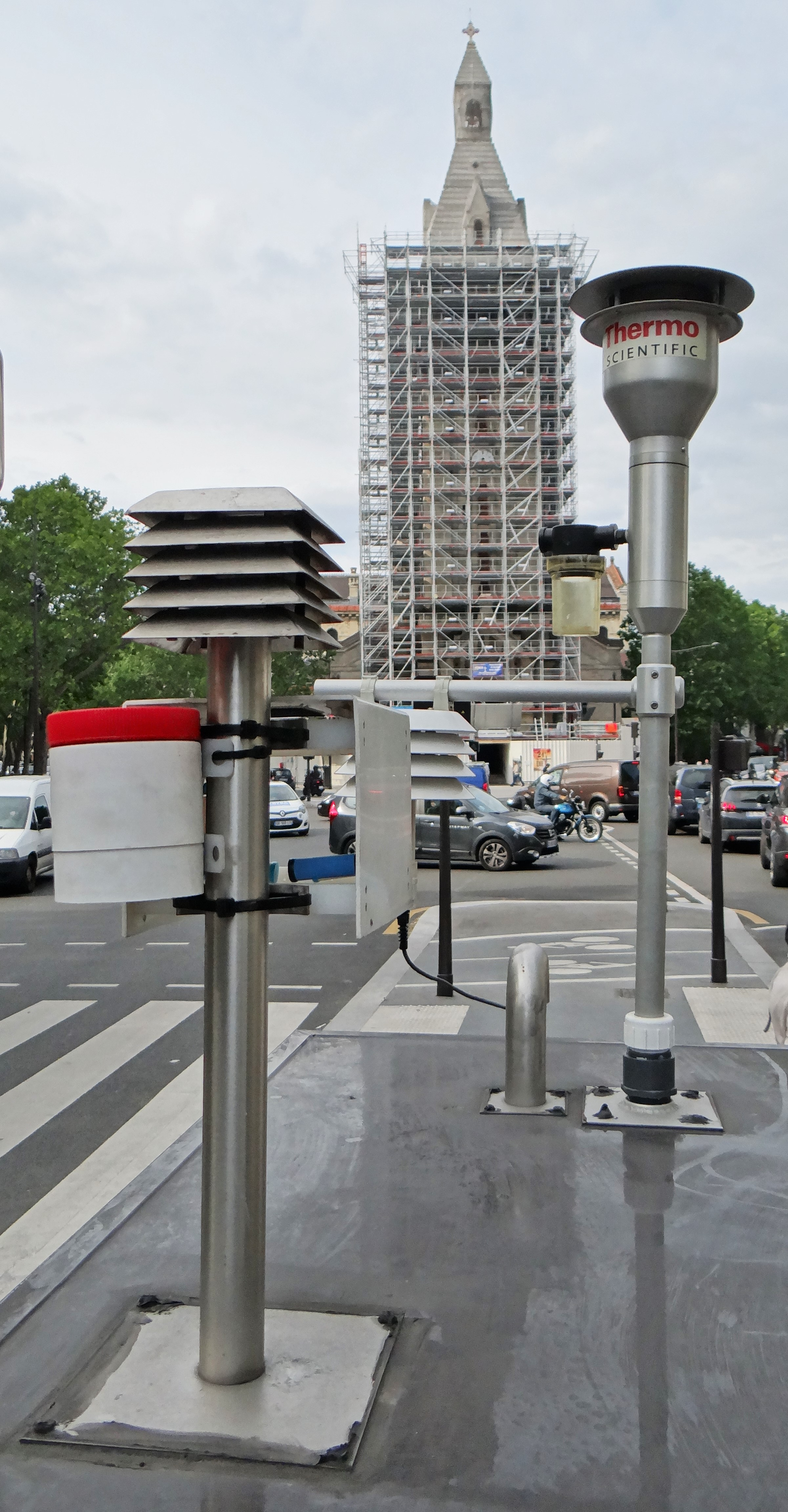 Air quality measurement station in Paris, Airpariif, Place Victor-et-Hélène-Basch, Paris 14